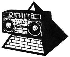 KLF's Pyramid Blaster logo, The Kopyright Liberation Front relinquished all intellectual property rights after their dissolution in 1991